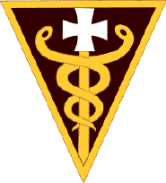 3rd Medical Command Shoulder Sleeve Insignia